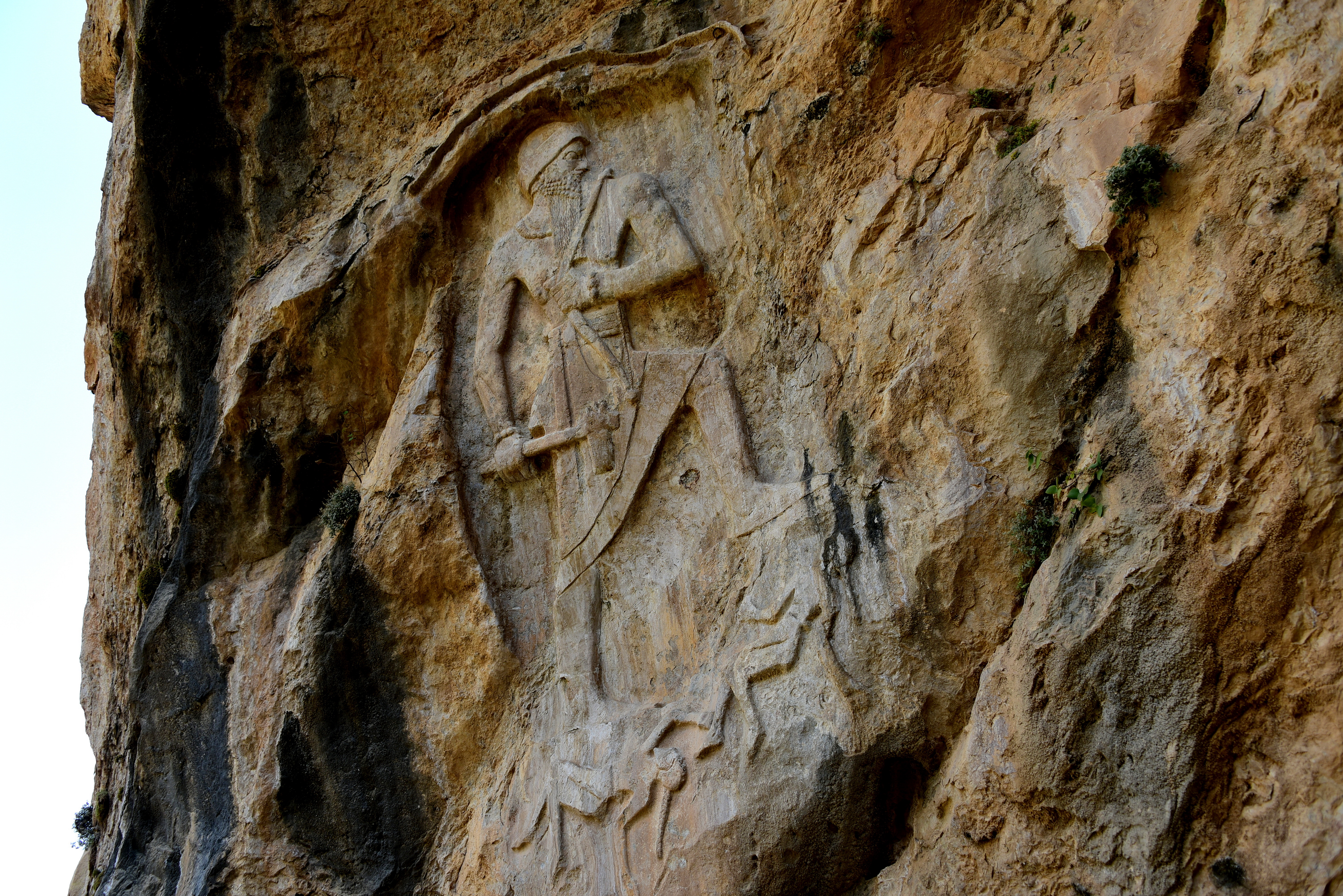 Naram-Sin (Naram-Suen) rock relief at Darband-i-Gawr, Qopi Koshk, Qaradagh Mountain, Sulaymaniyah Governorate, Iraqi Kurdistan.